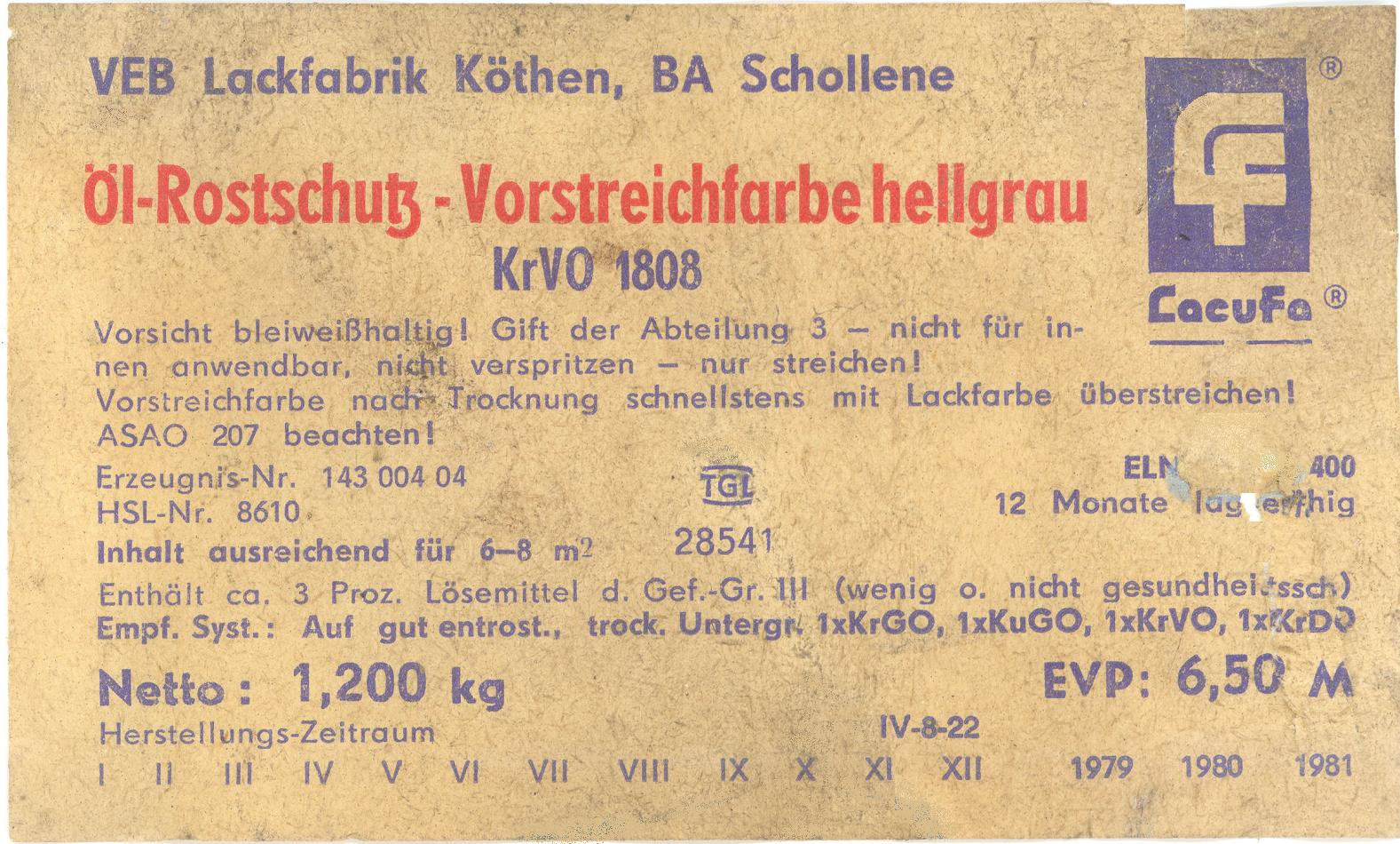 Label at a paint tin from the 1980th, which contains a warning note "contains white lead".